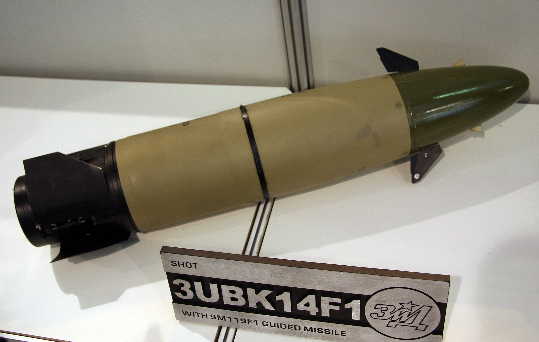 3UBK14F1 ammunition with 9M119F1 guided high explosive missile.